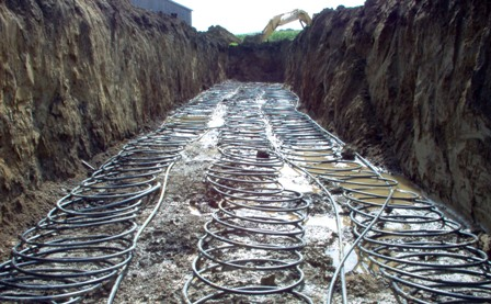 A horizontal closed loop field for a heat pump heat exchanger. A 3-ton slinky loop prior to being covered with soil. The three slinky loops are running out horizontally with three straight lines returning the end of the slinky coil to the heat pump.